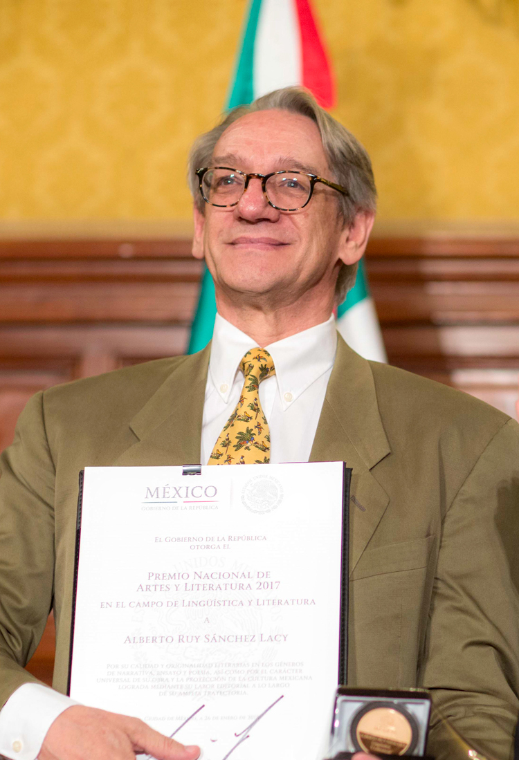 Alberto Ruy Sanchez Lacy receiving Arts and Literature National Prize 2017 from president Enrique Peña Nieto.